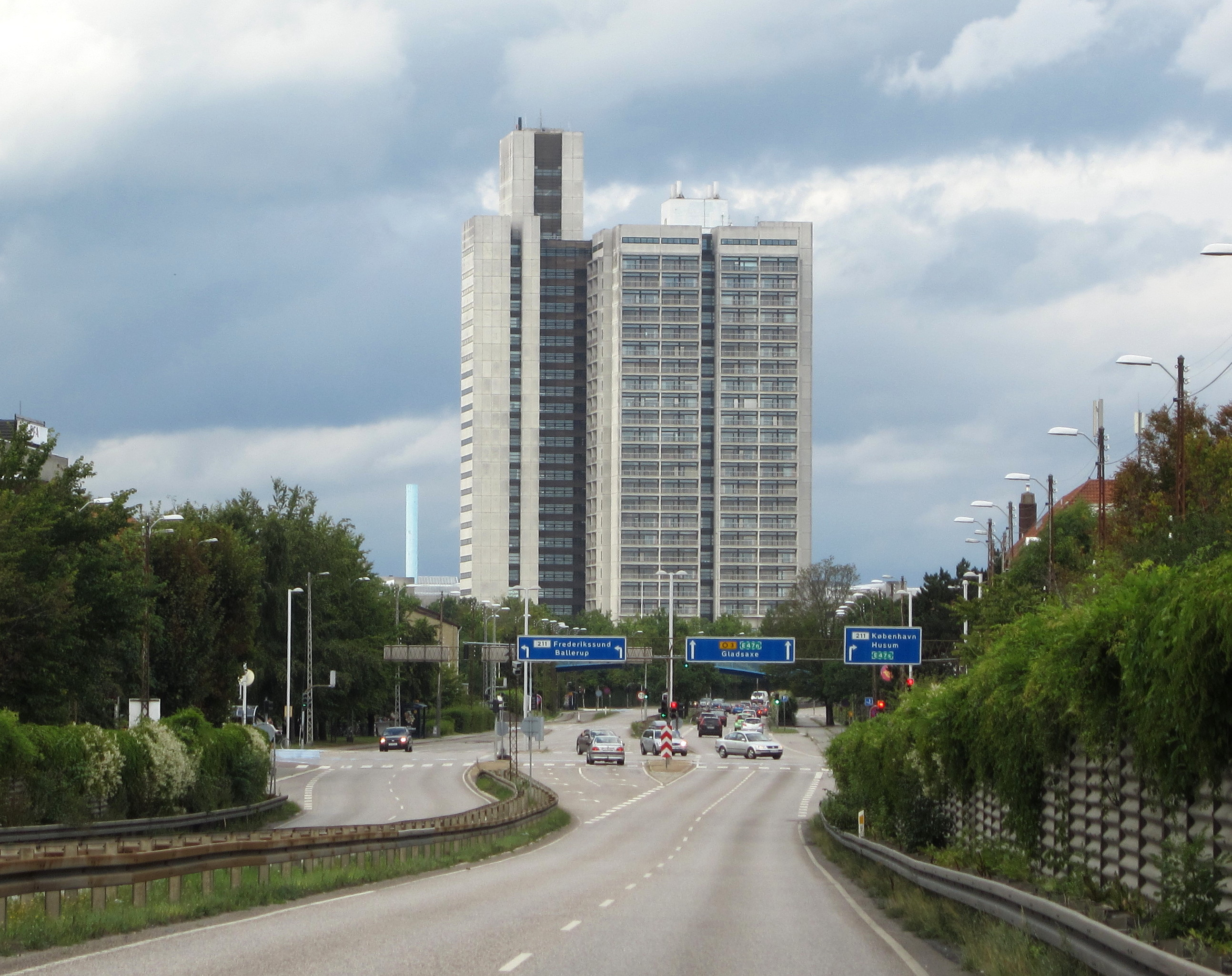 "Herlev Hospital" seen from Ring Road O3 called "Herlev Ringvej". The place is located in Copenhagen sururb "Herlev".